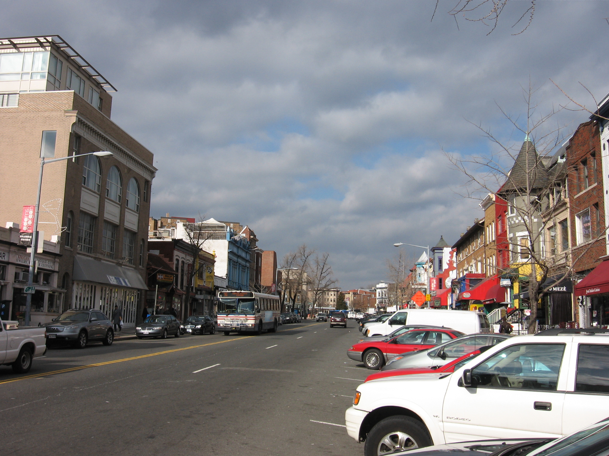 Adams Morgan, 18th Street NW